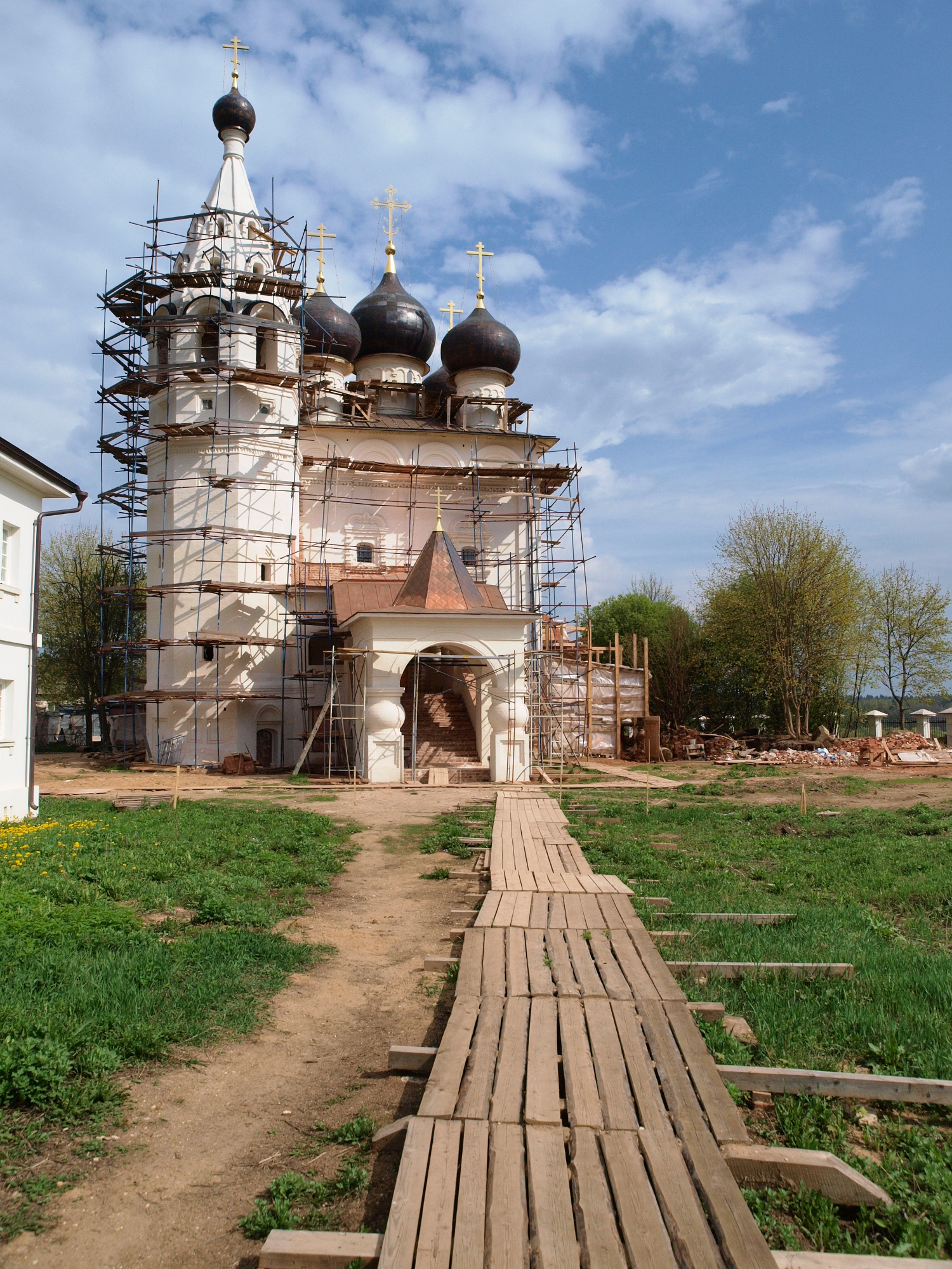 Church of the Lord's Entry into Jerusalem, Vereya.